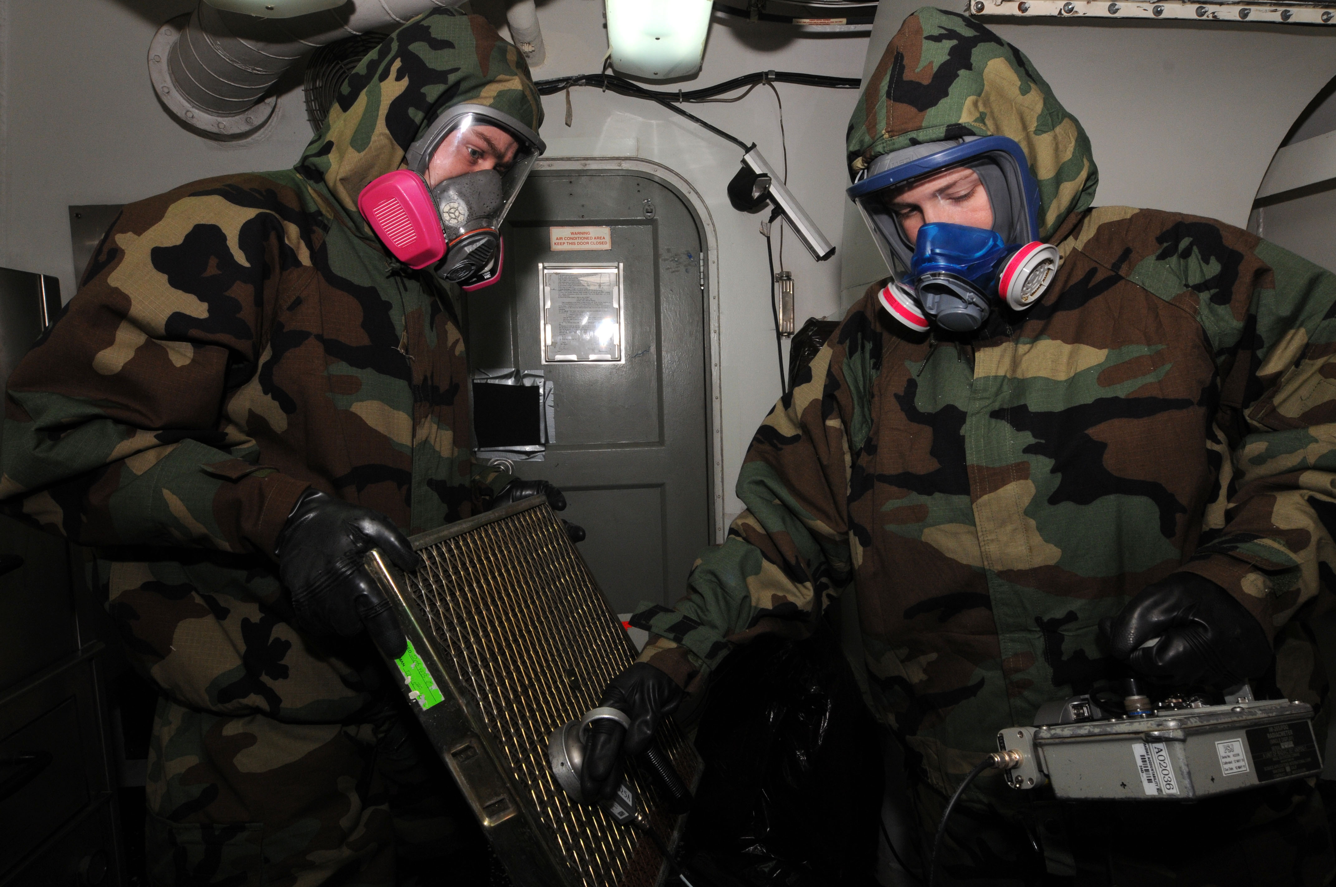 PACIFIC OCEAN (March 31, 2011) Damage Controlman Fireman Devon Ely, left, from Palmdale, Calif., holds a filter for Machinist's Mate 1st Class Margaret Huff, from Valparaiso, Ind., as she uses an IM-271/PD radiacmeter to detect possible surface contaminates in the filter shop aboard the aircraft carrier USS Ronald Reagan (CVN 76). Ronald Reagan is off the coast of Japan to provide disaster relief and humanitarian assistance to Japan as directed in support of Operation Tomodachi. (U.S. Navy photo by Mass Communication Specialist 3rd Class Kyle Carlstrom/Released)